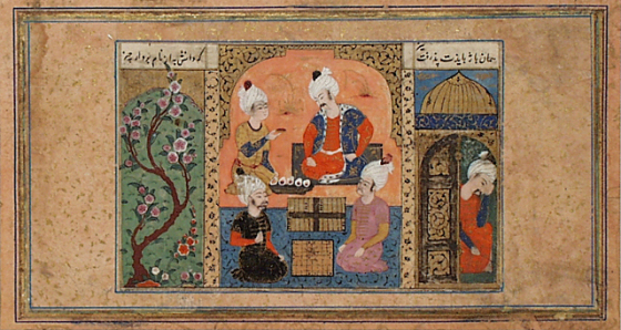 Turkey, Turkish, 1525-1575 Manuscripts Ink, opaque watercolor, and gold on paper The Nasli M. Heeramaneck Collection, gift of Joan Palevsky (M.73.5.586) Islamic Art Currently on public view: Ahmanson Building, floor 4